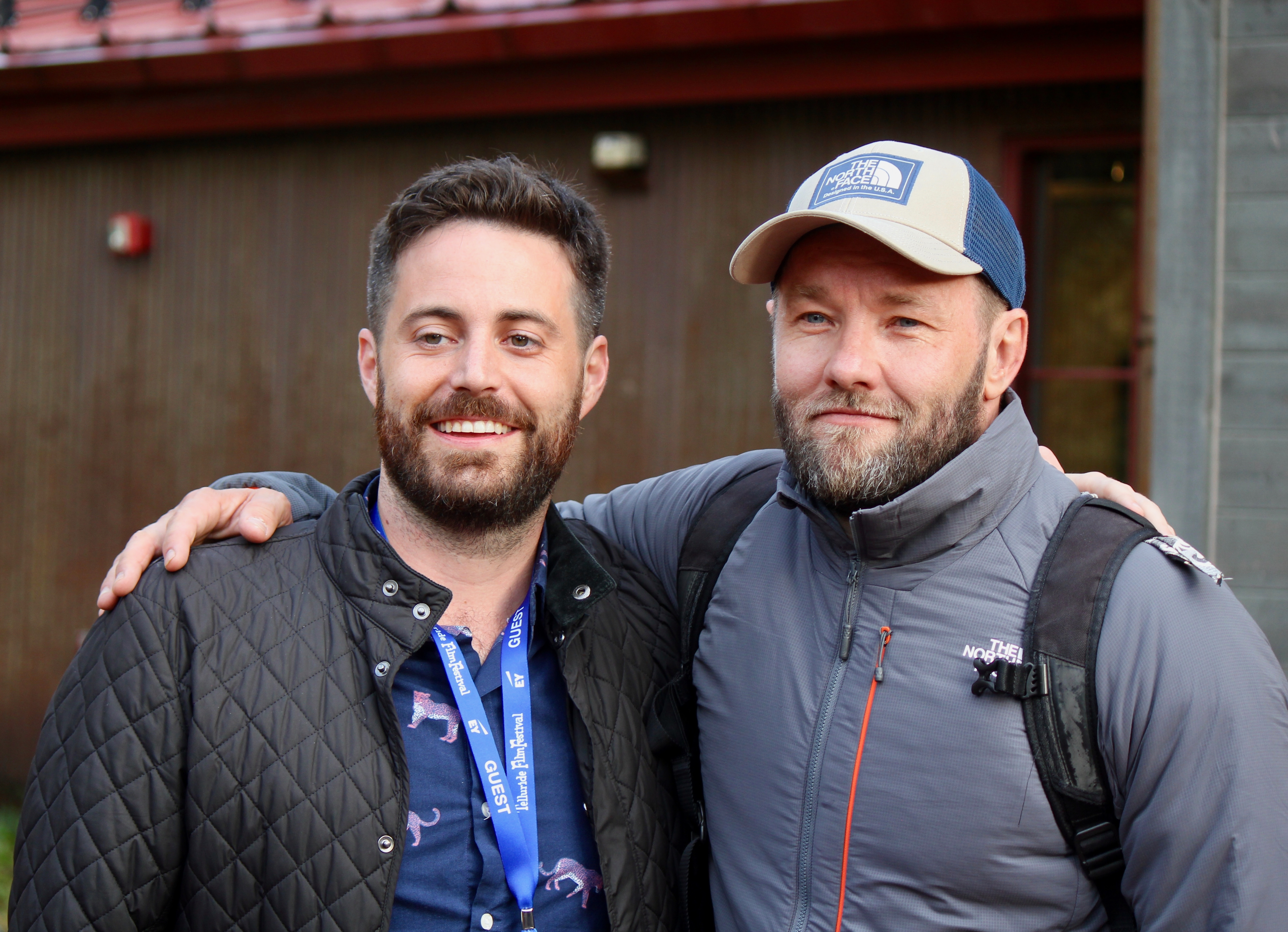 Boy Erased, Joel Edgerton, Garrard Conley pose